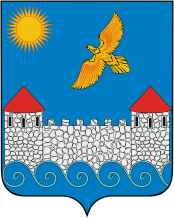 Kingisepp rayon (Leningrad oblast), coat of arms